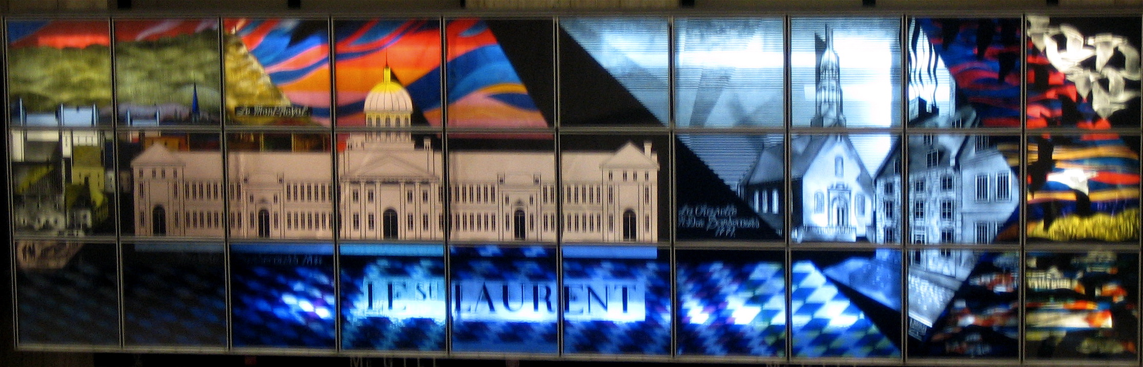 Stained glass, McGill metro station, Montreal. Fifth of five pieces from East to West.